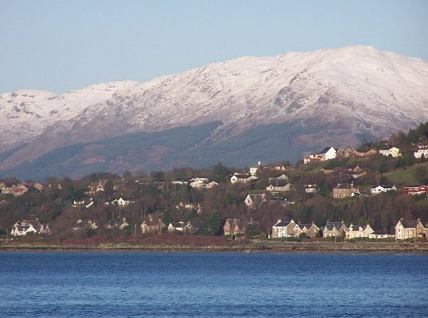 Kilcreggan in winter